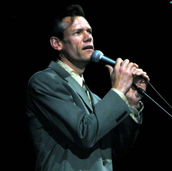 Randy Travis is Singing his hit song "Three Wooden Crosses"